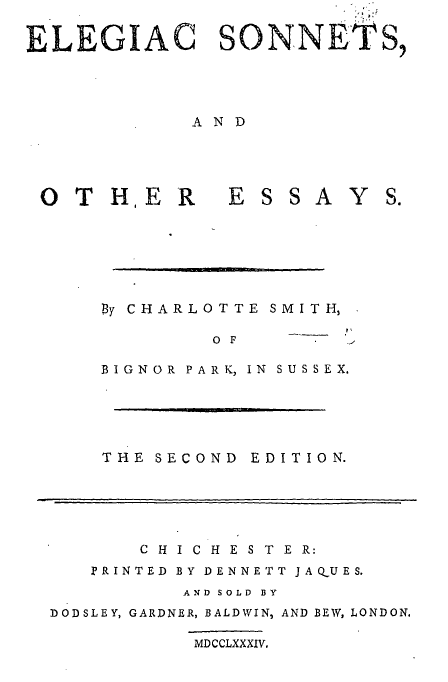 Smith, Charlotte Turner. Elegiac sonnets, and other essays. The second edition. Chichester: Printed for Dennet Jaques, 1784.